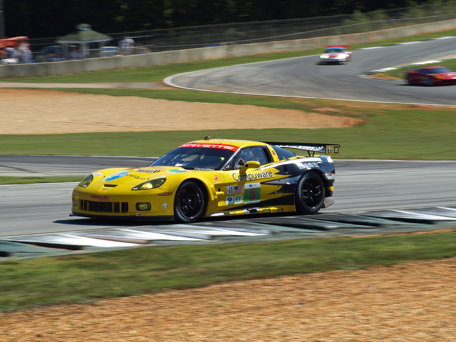 Tommy Milner driving the Corvette Racing Chevrolet Corvette C6.R in qualifying for the 2011 Petit Le Mans at Road Atlanta.